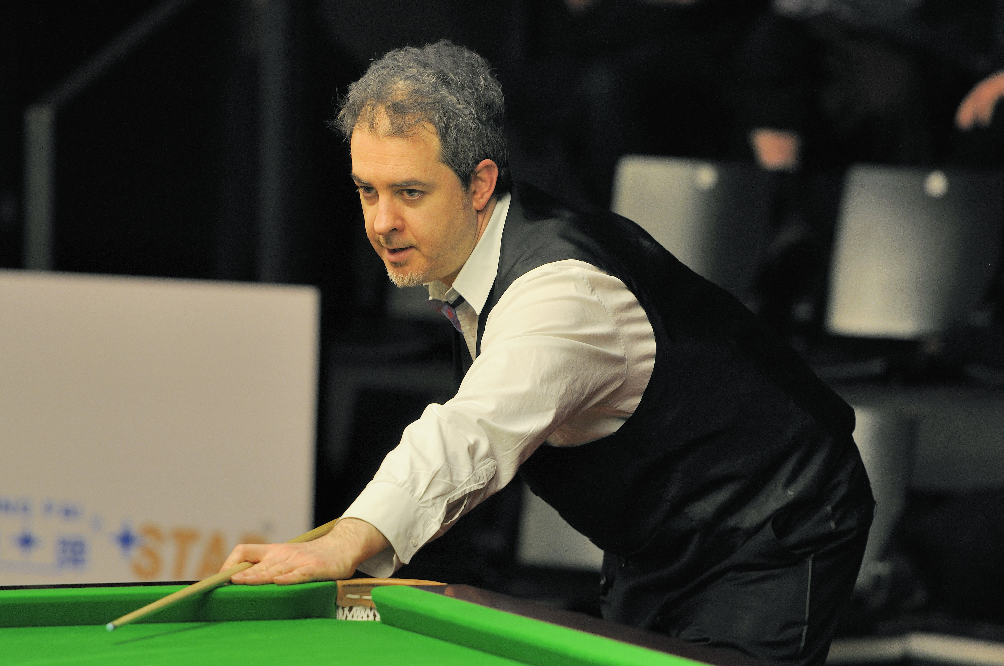 Picture taken in Berlin during the Snooker German Masters in 2014. Anthony Hamilton.